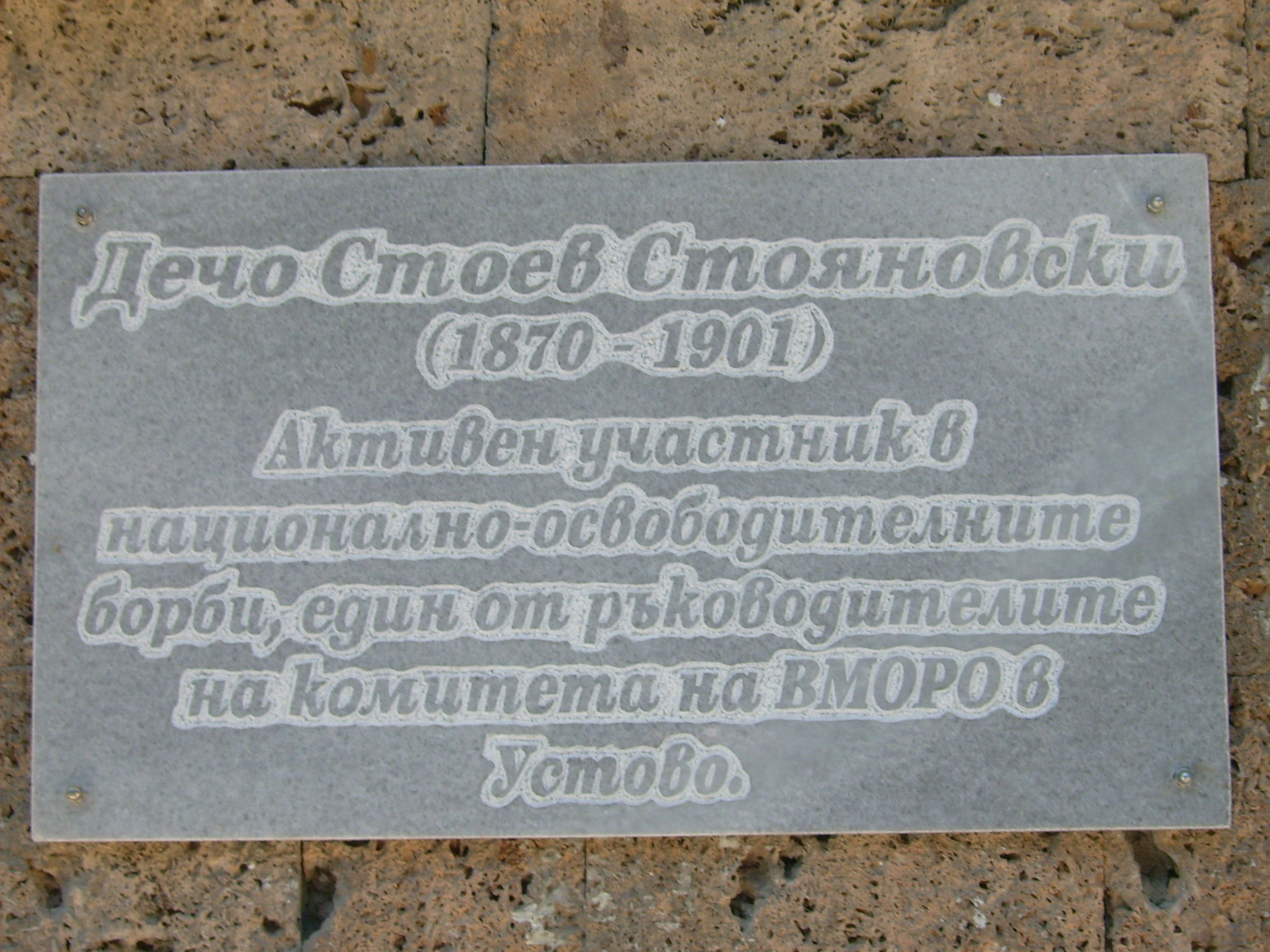 Memorial plaque of IMARO member Decho Stoyanovski in Ustovo quarter, Smolyan, Bulgaria.